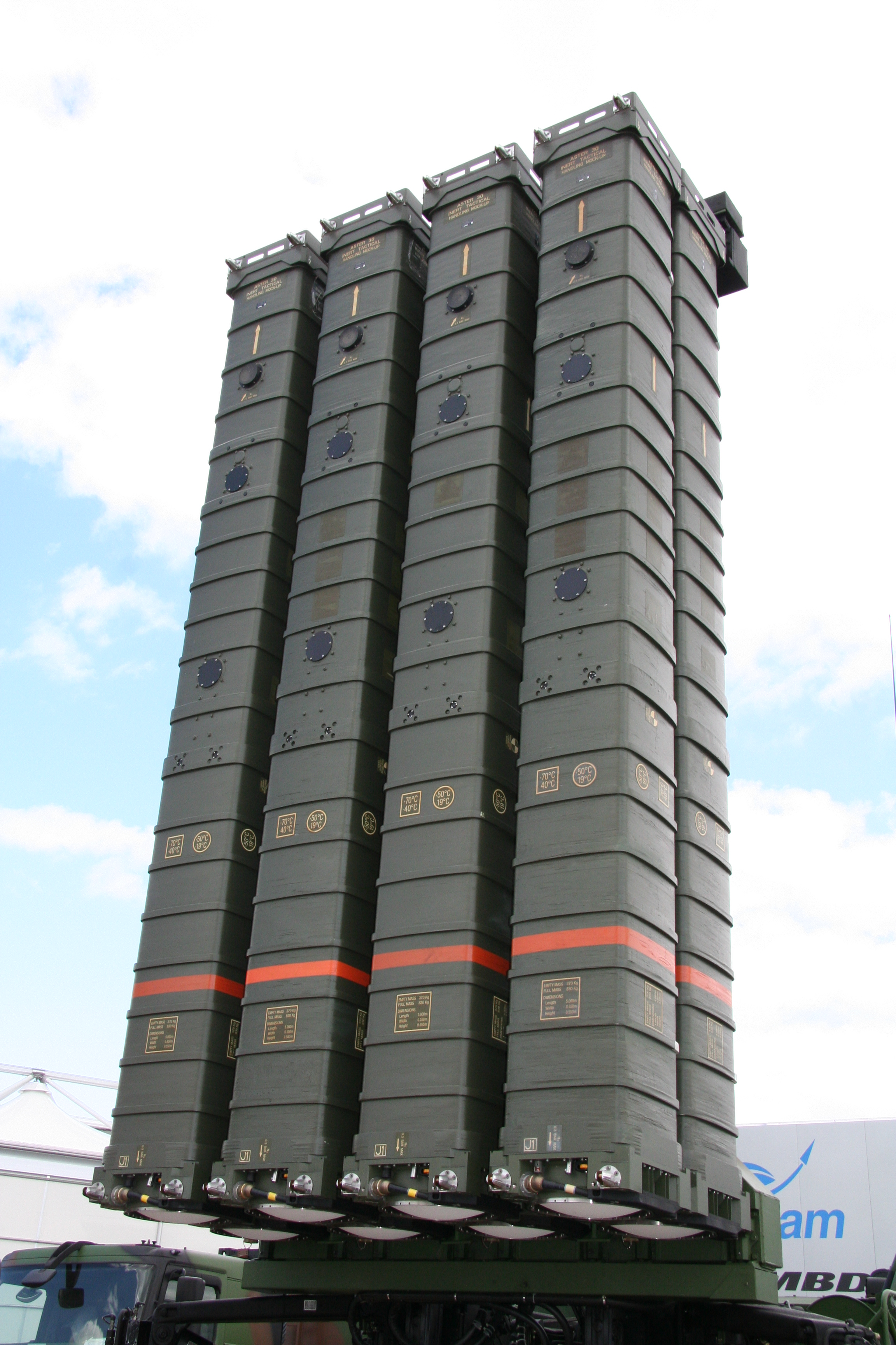 MBDA Aster 30 - Paris Air Show 2009